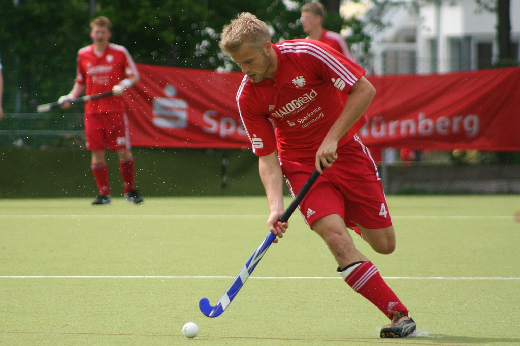 Maximilan Müller in action at his Hockey Club Nürnberger HTC